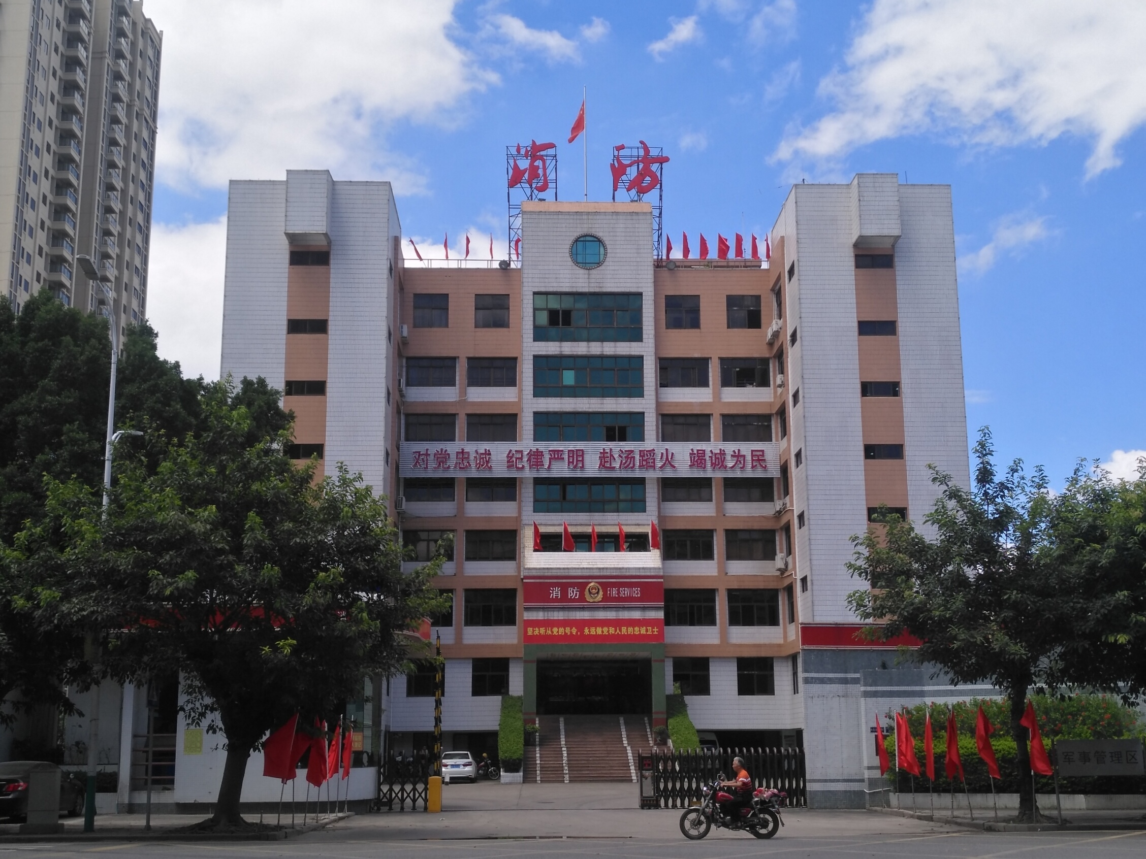 The Chaozhou City Fire Brigade. Location in Fengchun Road, Xiangqiao District.